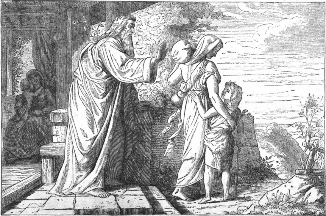 Abraham sends Hagar away.